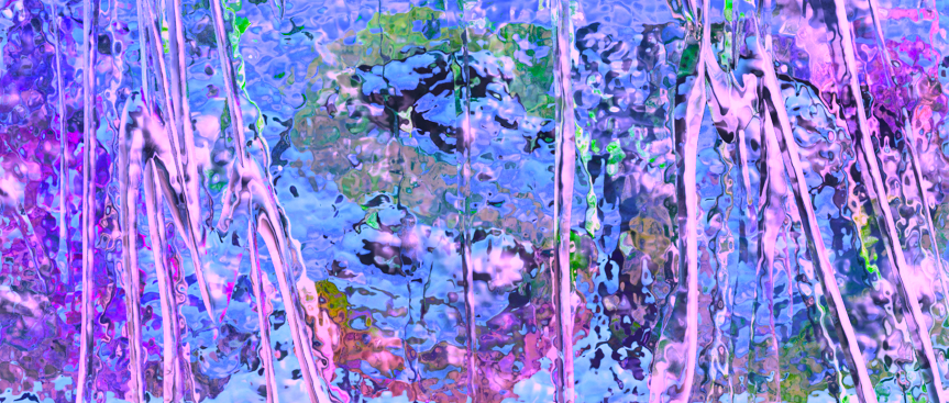 A gift to the Dutch Wikipedia, because of my love for Amsterdam (Google tranlator)